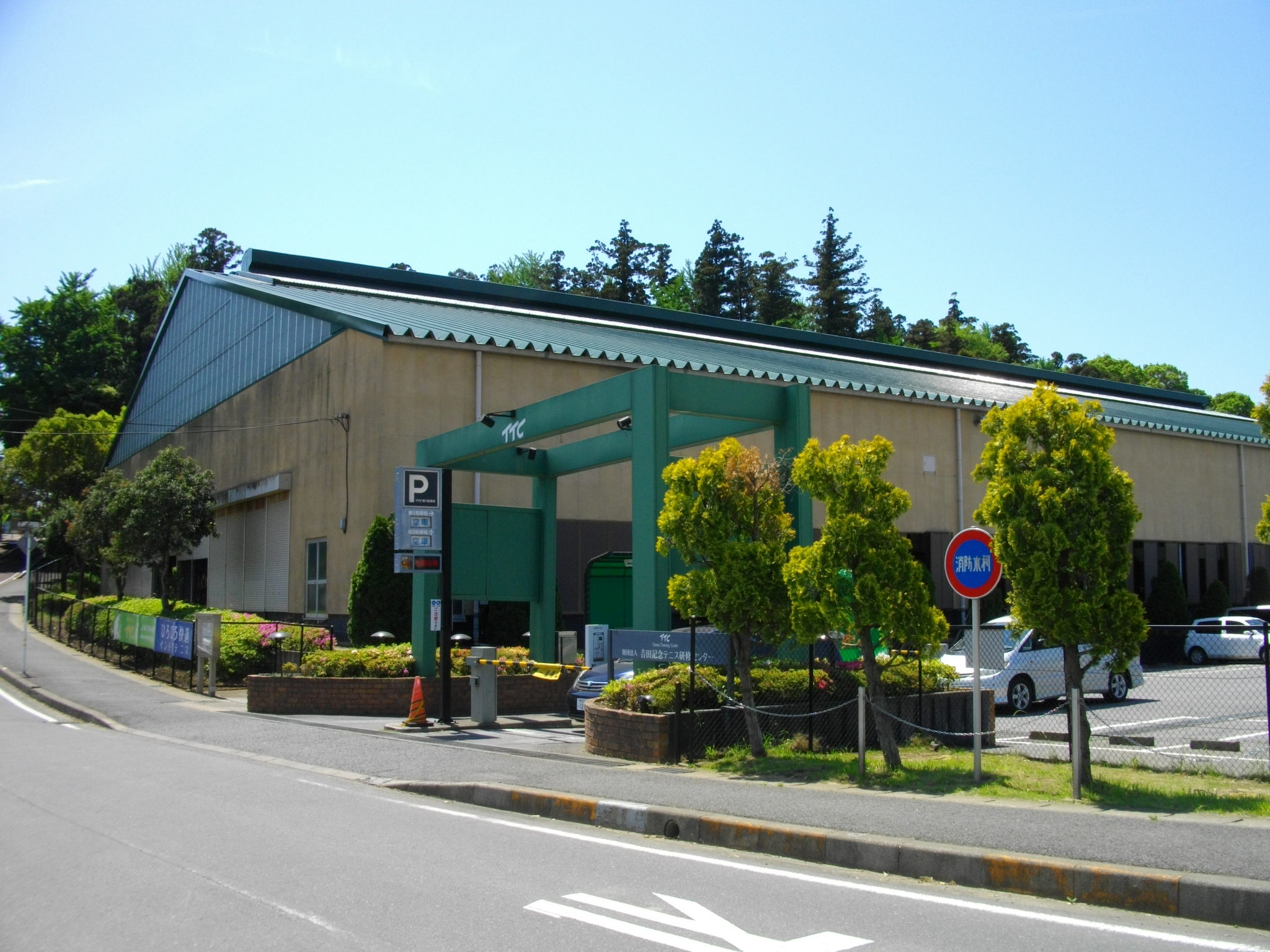 Yoshida Memorial Tennis Training Center